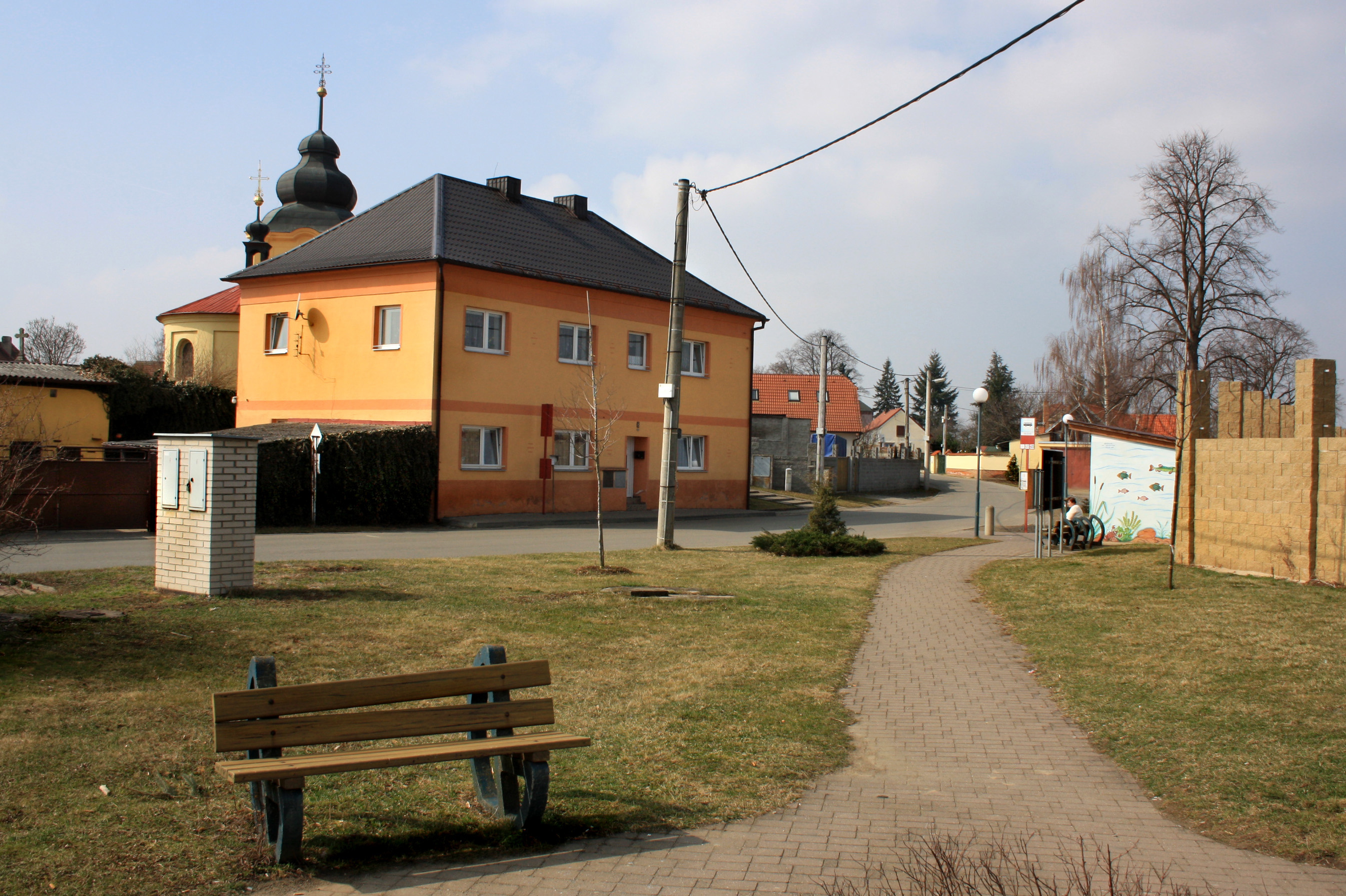 Common in Zálezlice, Czech Republic